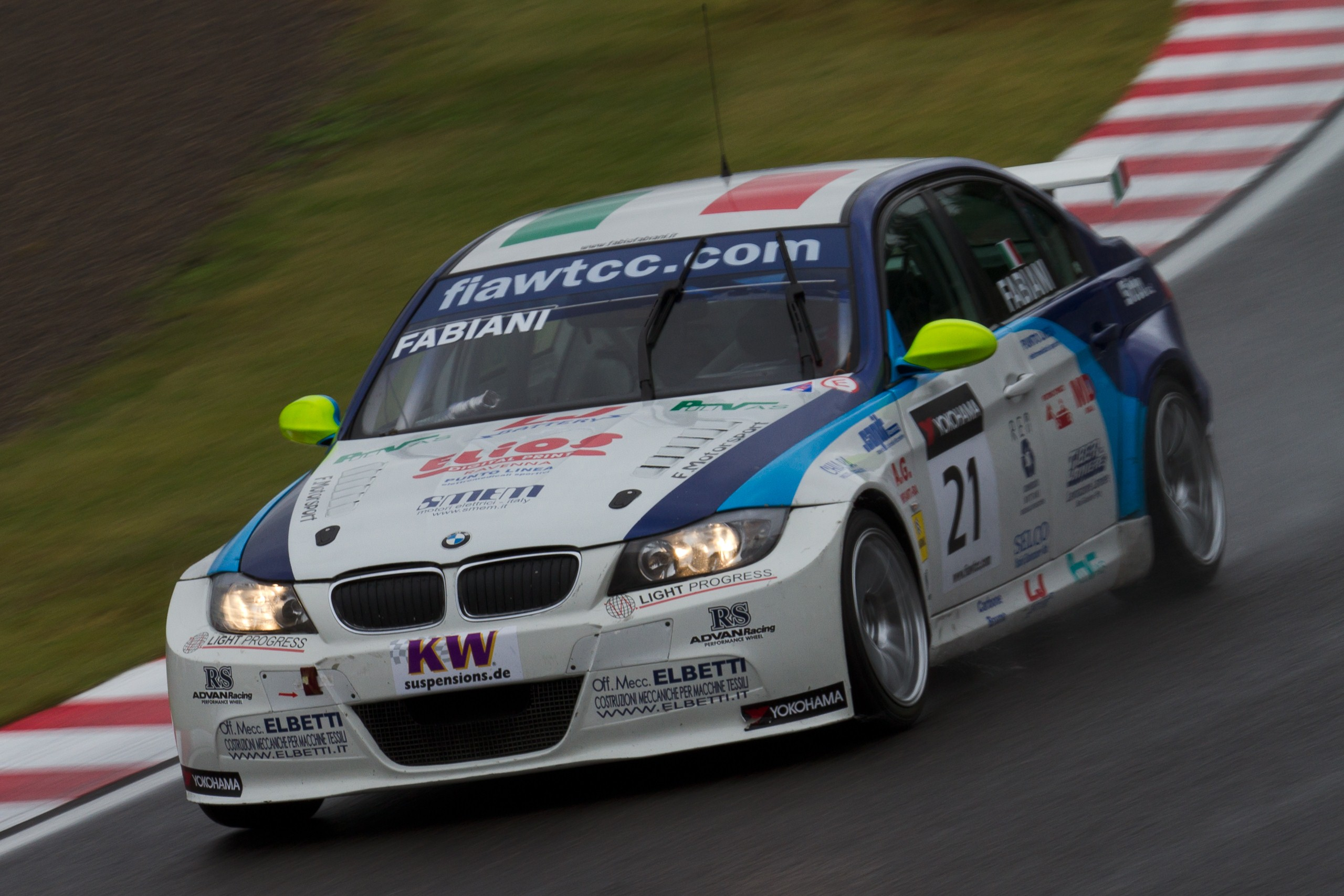 World Touring Car Championship 2011 Race of Japan: Fabio Fabiani (Proteam Racing) during the 1st practice session on Saturday.